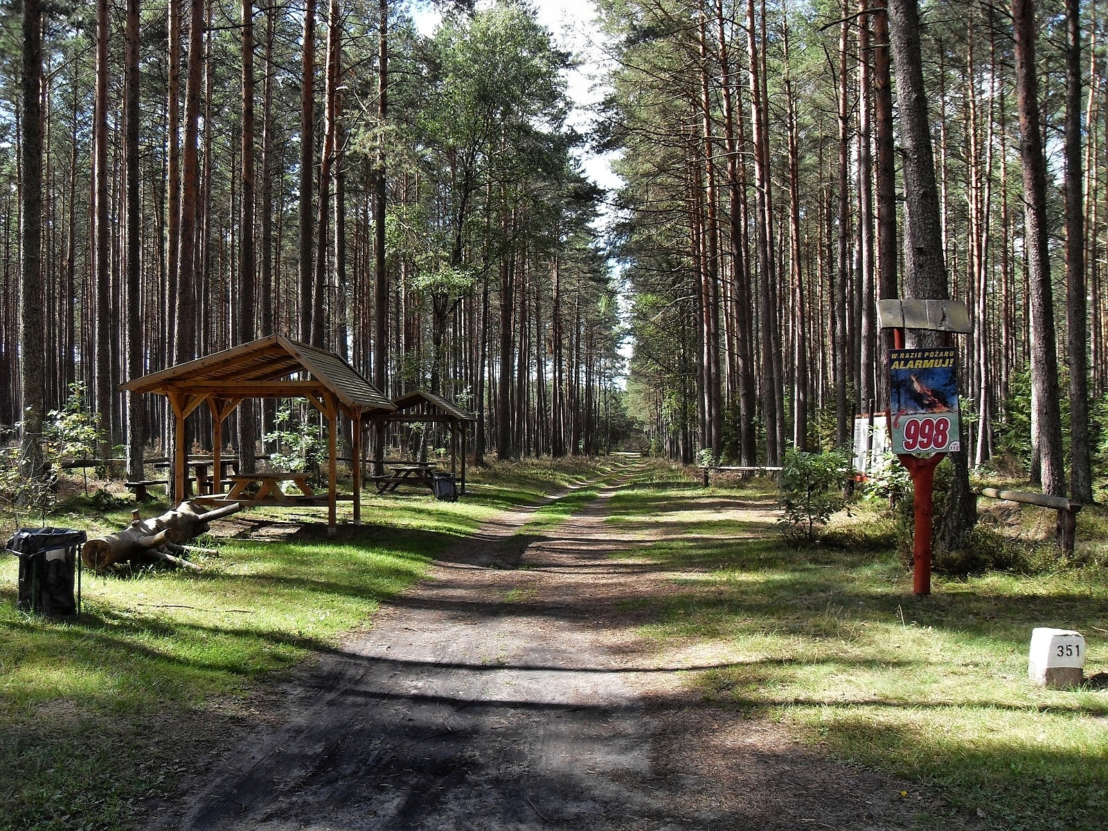 Resting in the middle of the road with Kaliska